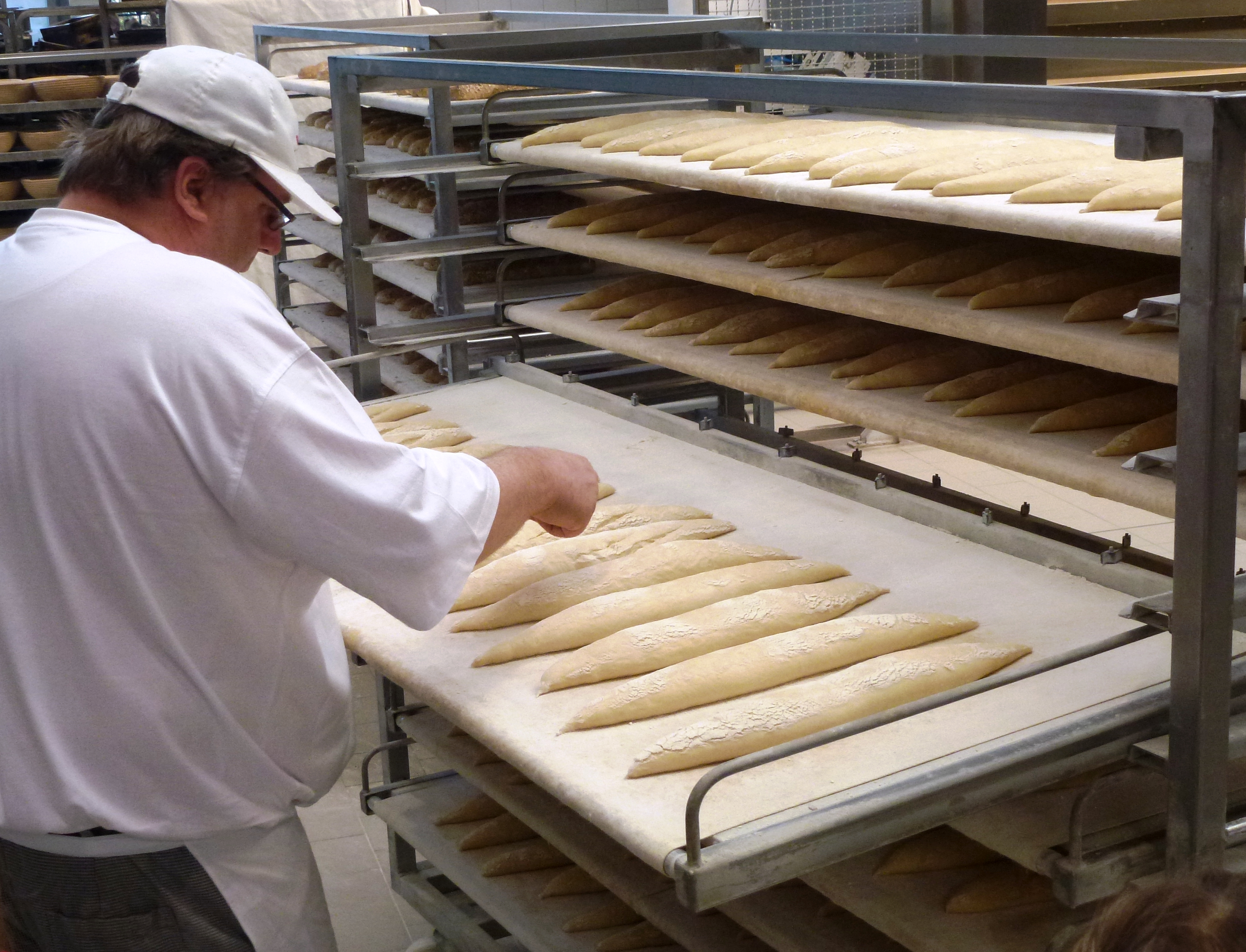 Spitz-Baguette during preparation